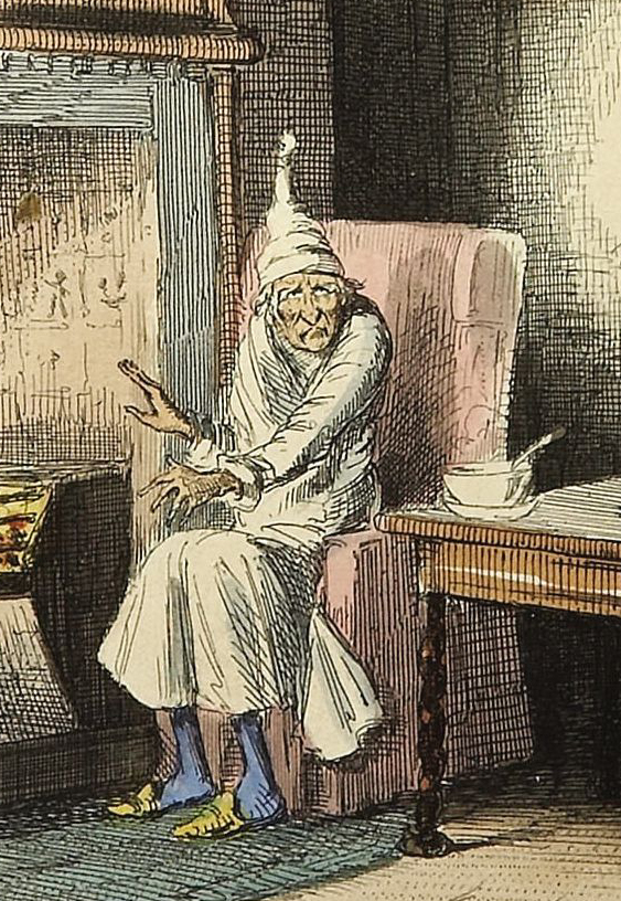 Scrooge, from Charles Dickens: A Christmas Carol. In Prose. Being a Ghost Story of Christmas. With Illustrations by John Leech. London: Chapman & Hall, 1843. First edition.